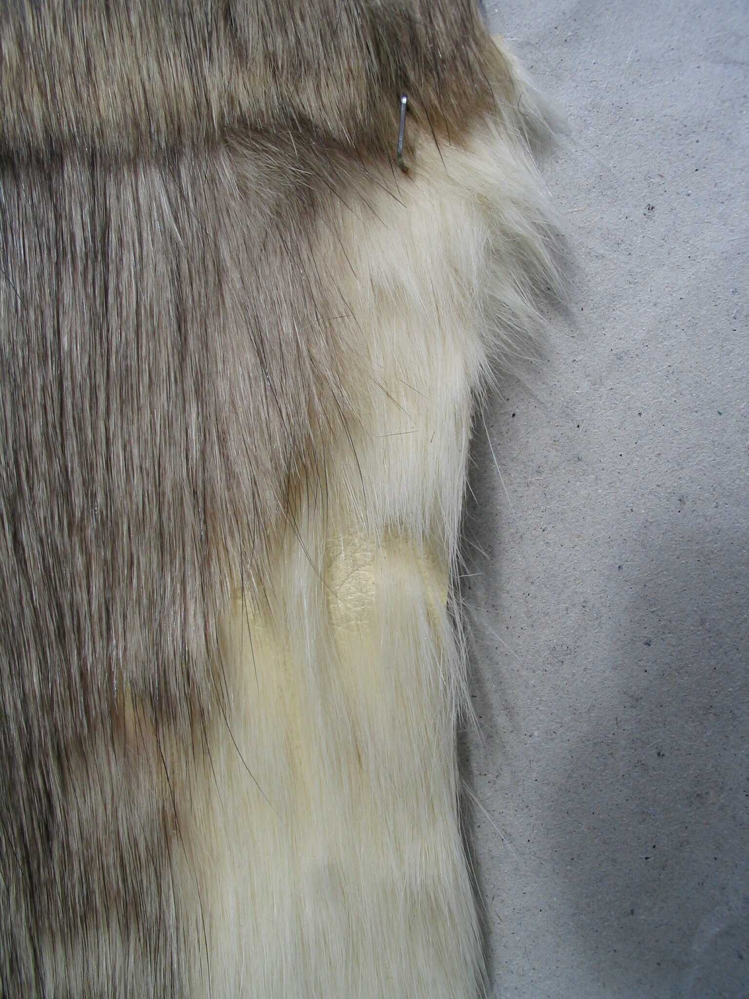 Viscacha fur, cut